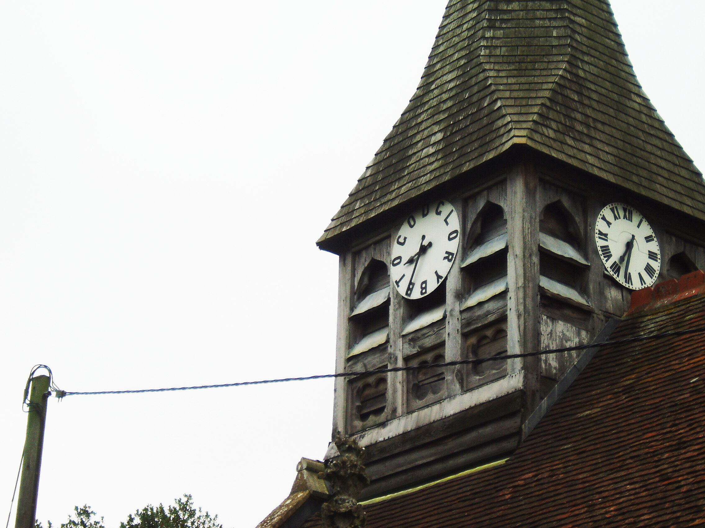 This unusual clock is in the village of Wootton Rivers, Wilshire, next to Wootton Rivers Lock on the Kennet and Avon Canal